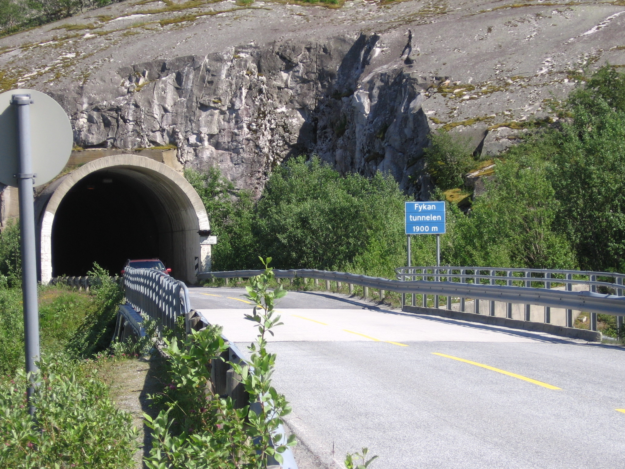 Fykan Tunnel in Meløy, Norway, in 2007.